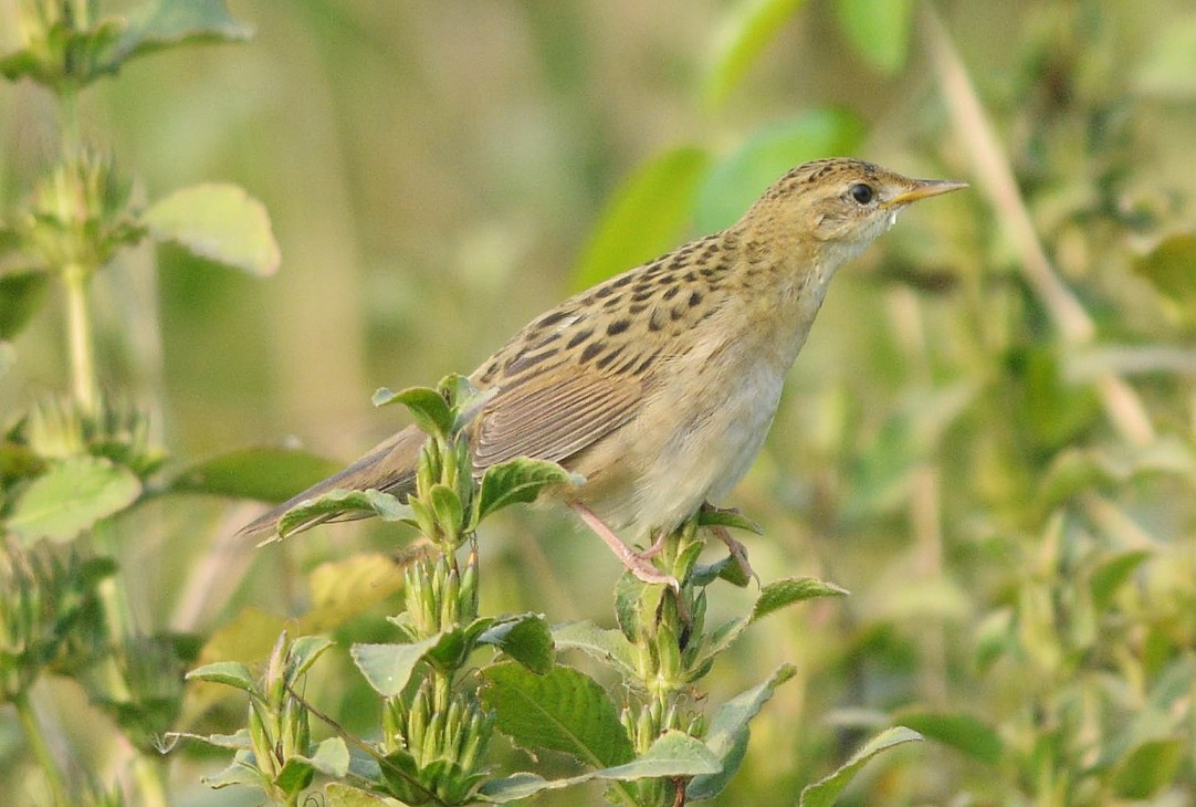 Common Grasshopper Warbler Locustella naevia. Clicked at Dombivli (East) in Maharashtra, India.